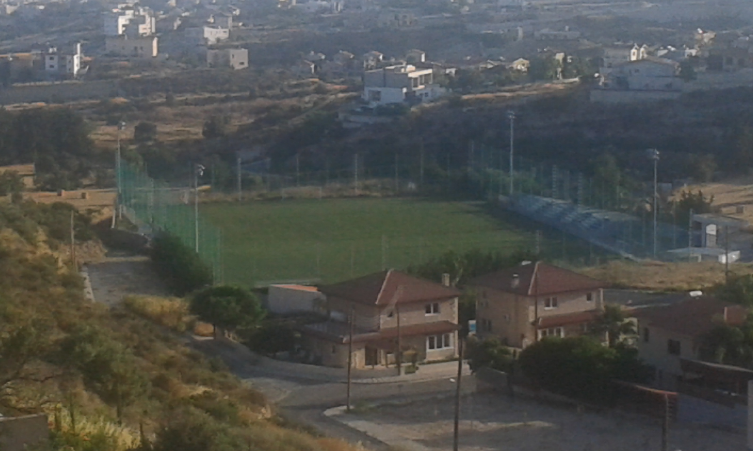 SEK Ayiou Athanasiou home ground